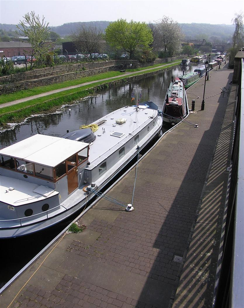 Section of Huddersfield Broad Canal between Turnbridge Lift Bridge and Aspley.